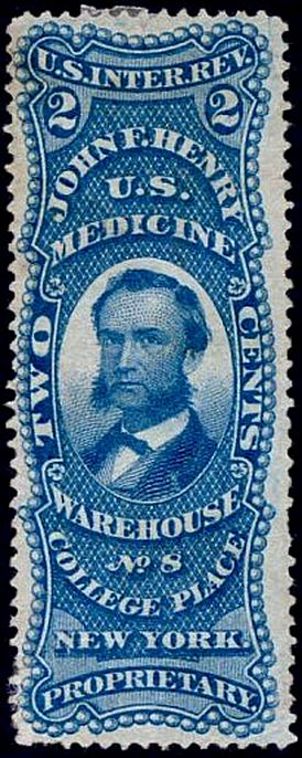 Image of Private die proprietary revenue stamp, 2c, 1859